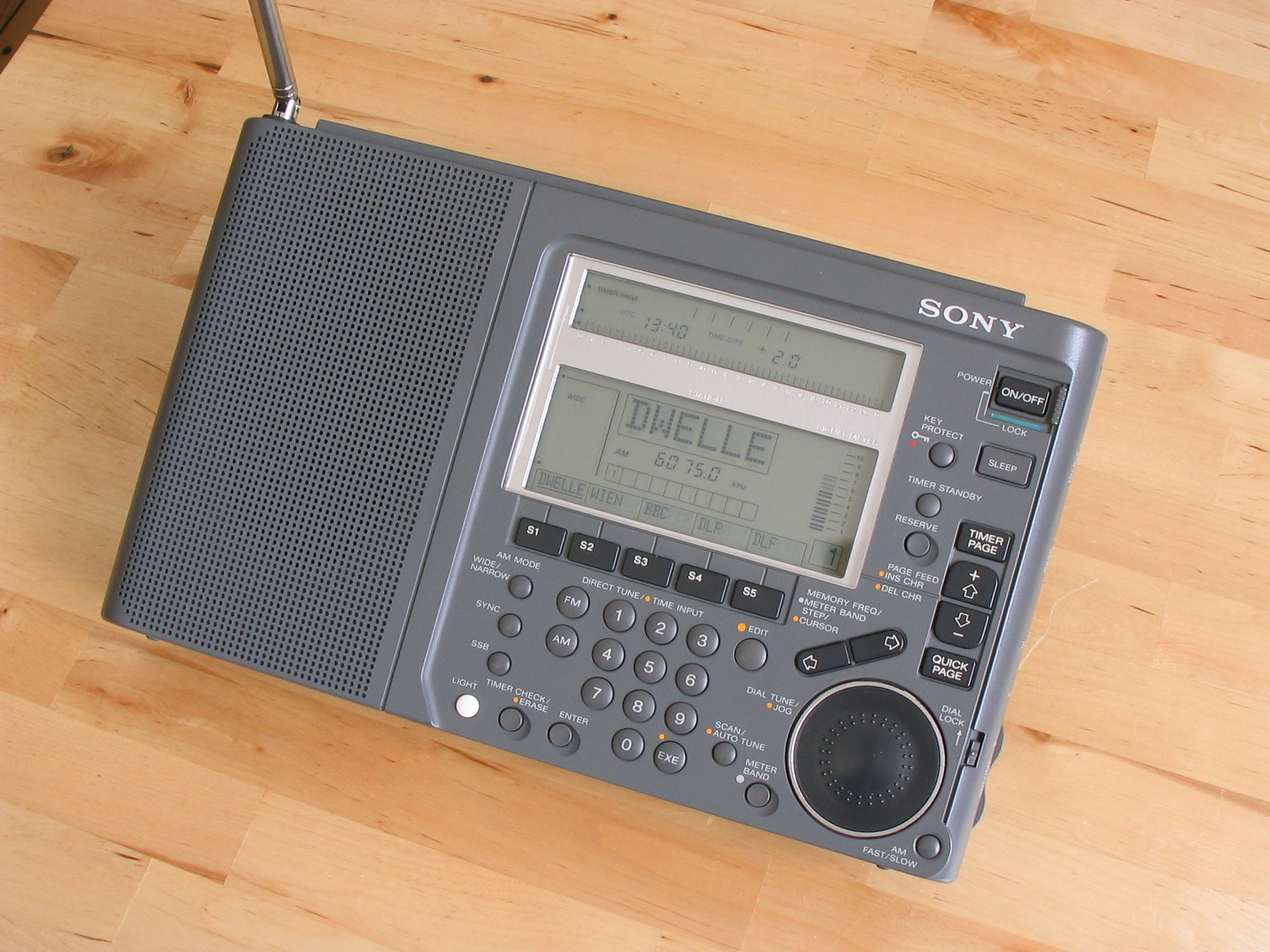 SONY World Band Receiver ICF-SW77